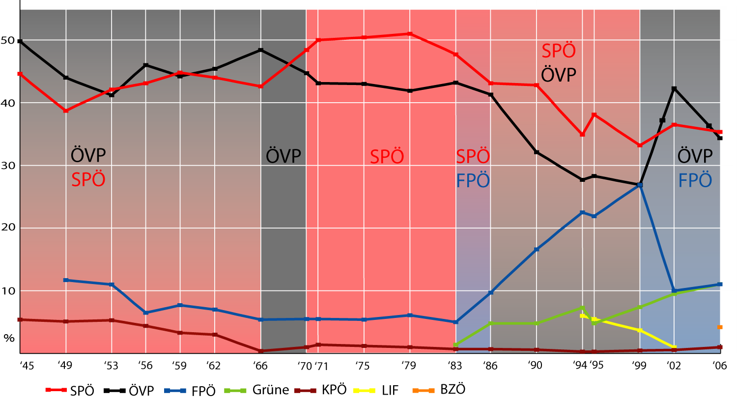 Results of the legislation-elections in Austria 1945 to 2006, color-overlay for the government-constellations.